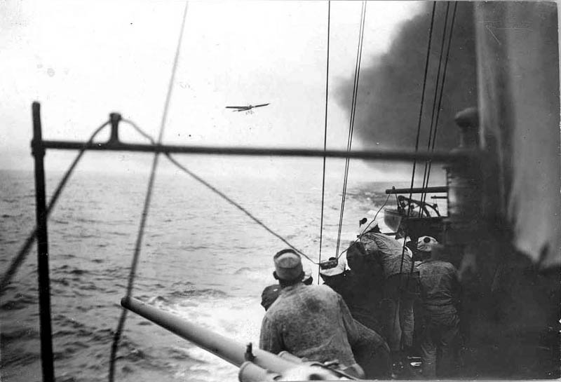 Hubert Latham over English Channel in an Antoinette VII, his 2nd crossing attempt, 25 July 1909